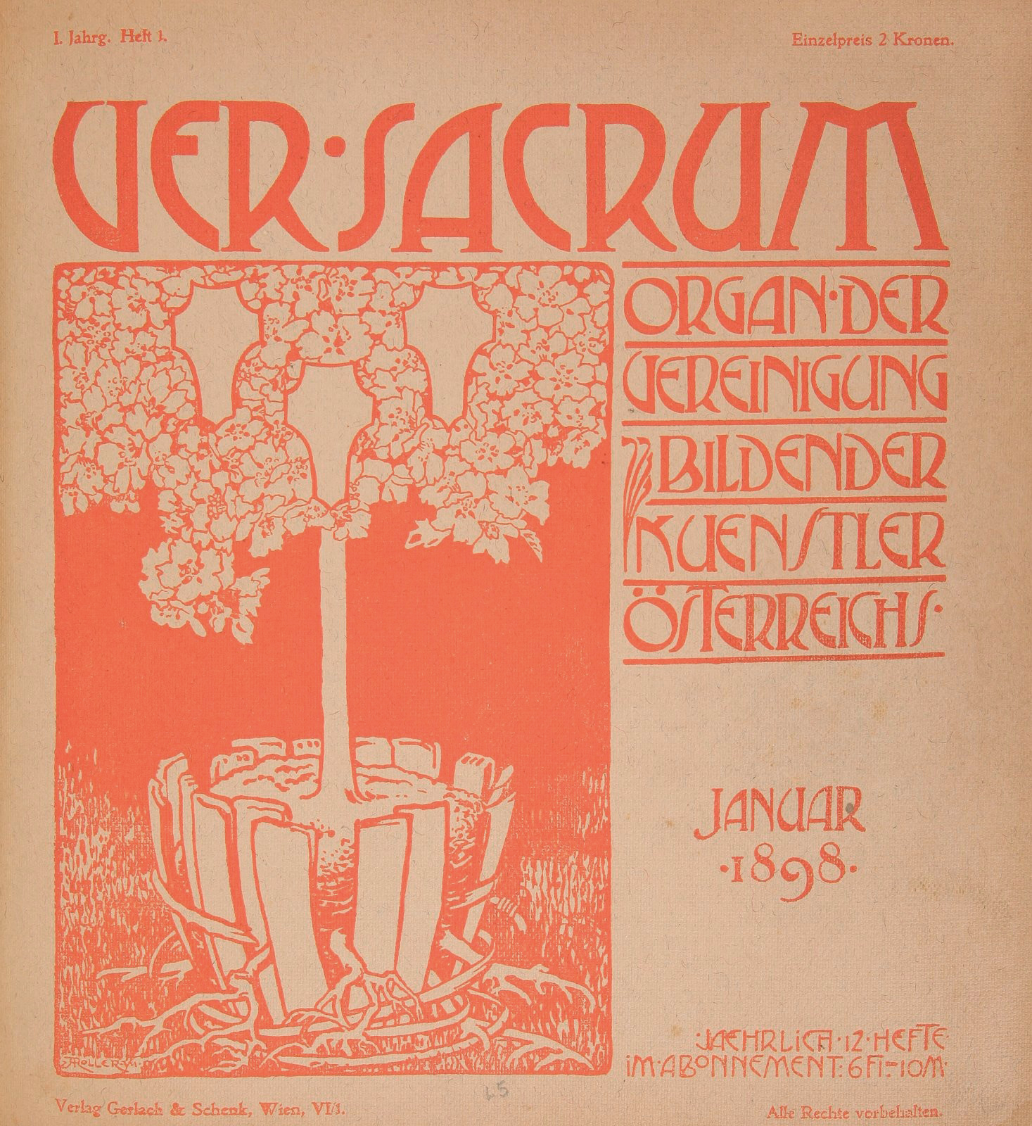 Cover of Ver sacrum, Issue 1, January 1898, designed by Alfred Roller